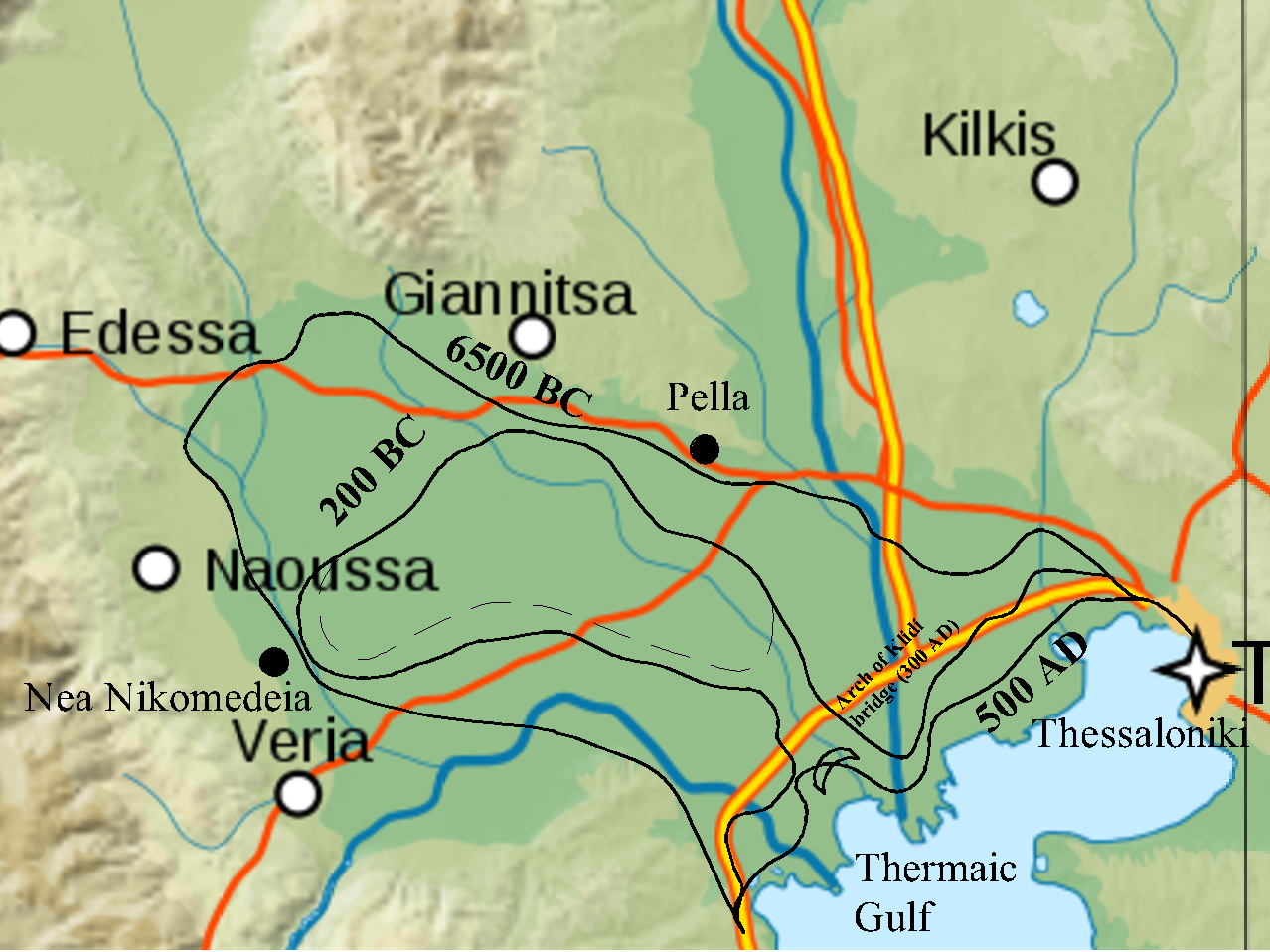 Bottema’s reconstructions of the growth of the Thessaloniki Plain (Bintliff, J., 1976, The plain of Western Macedonia and the Neolithic site of Nea Nikomedeia, Proceedings of the Prehistoric Society 42:241-262 по Bottema, S. 1974. Late Quaternary vegatation history of Northwestern Greece, PhD Thesis Groningen University, 190 p.)